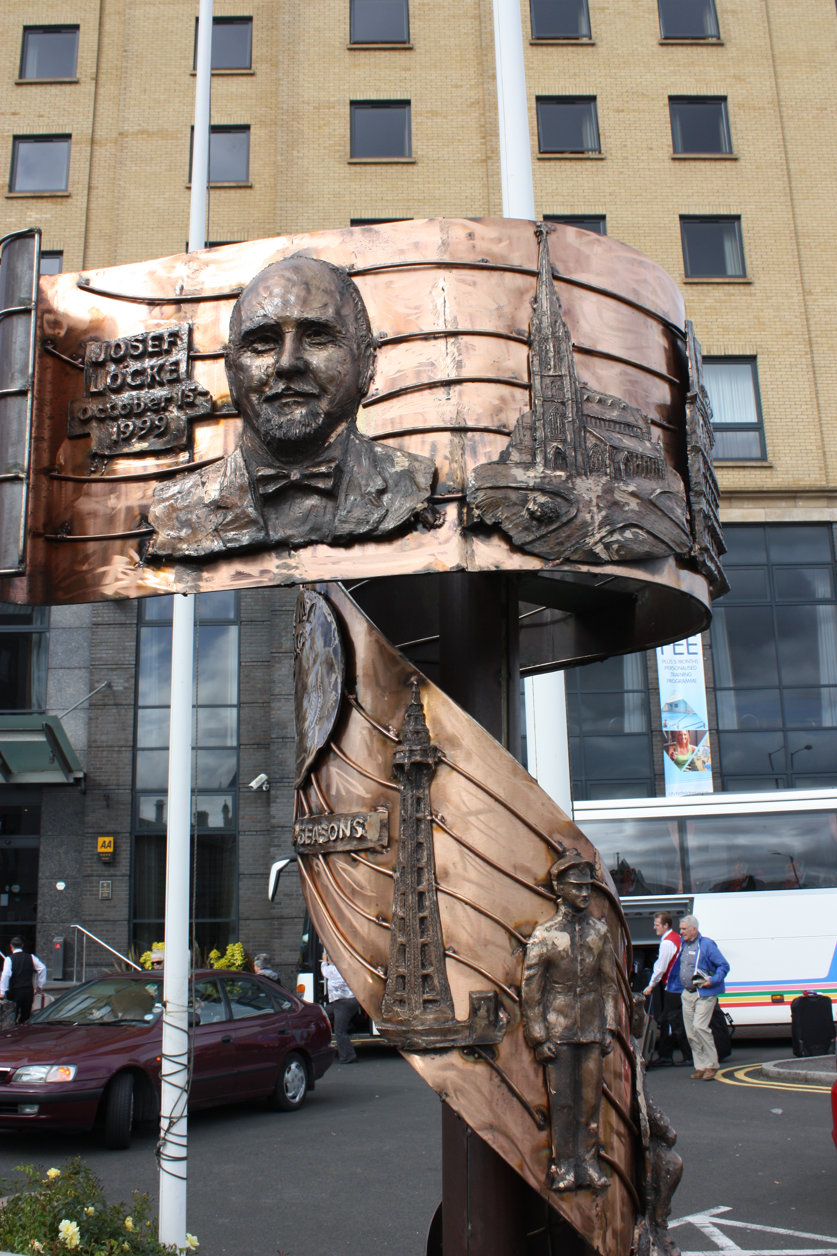 Josef Locke memorial, City Hotel, Queen's Quay, Derry, County Londonderry, Northern Ireland, September 2010